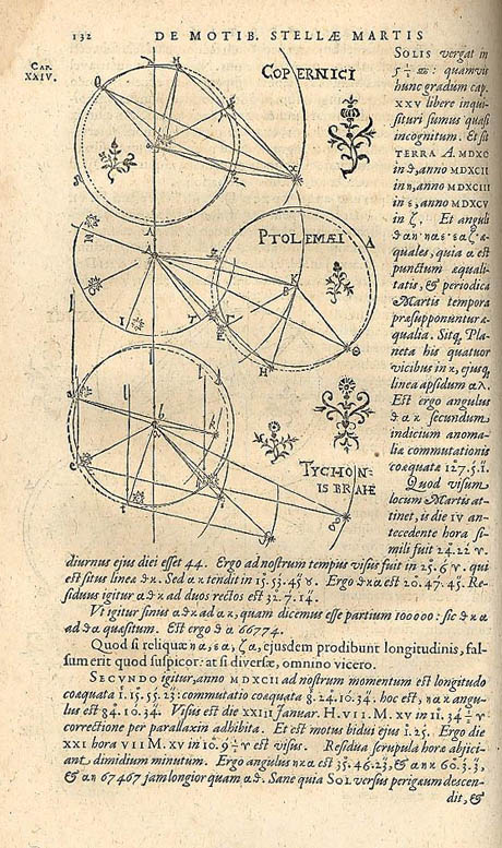 Page 132 from Johannes Kepler's Astronomia Nova showing diagrams of the three models of planetary motion prior to Kepler.